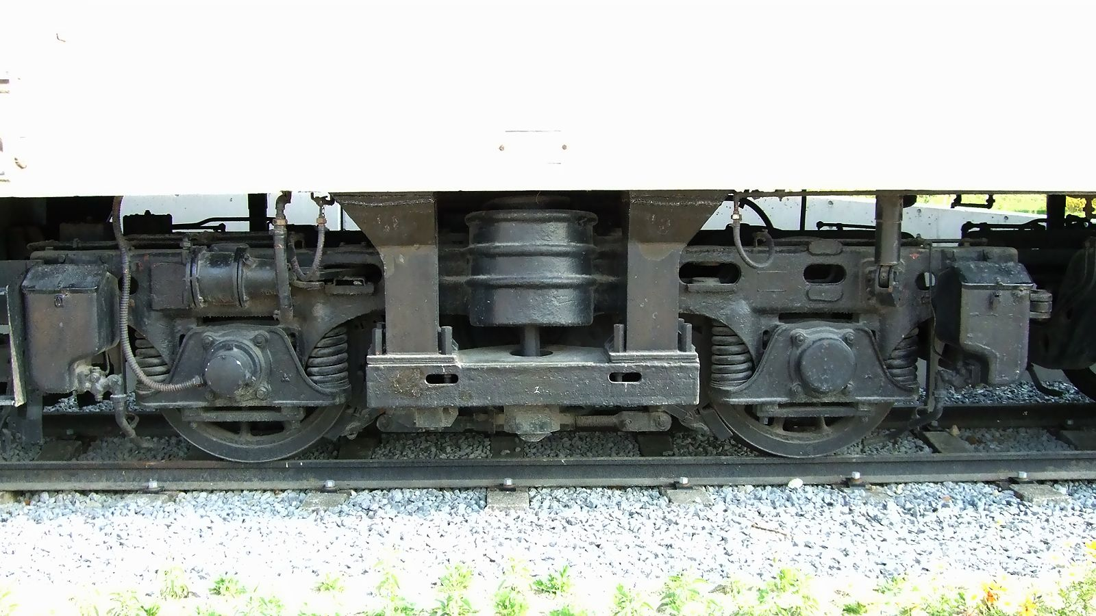 Japanese National Railways truck typeDT117.